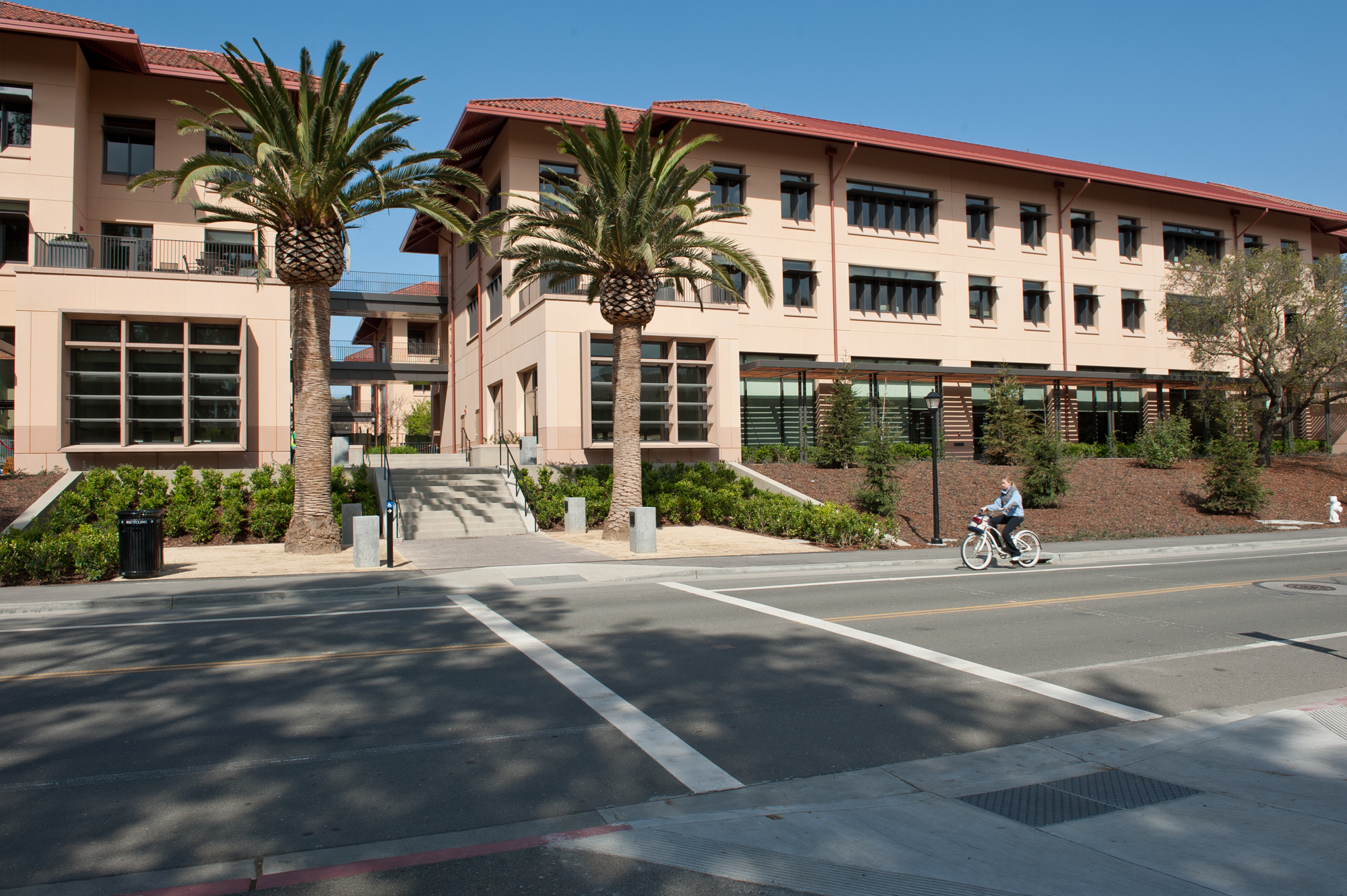 Shoot of the Stanford Knight Management Center, home of the Stanford Graduate School of Business, seen from Serra Street.